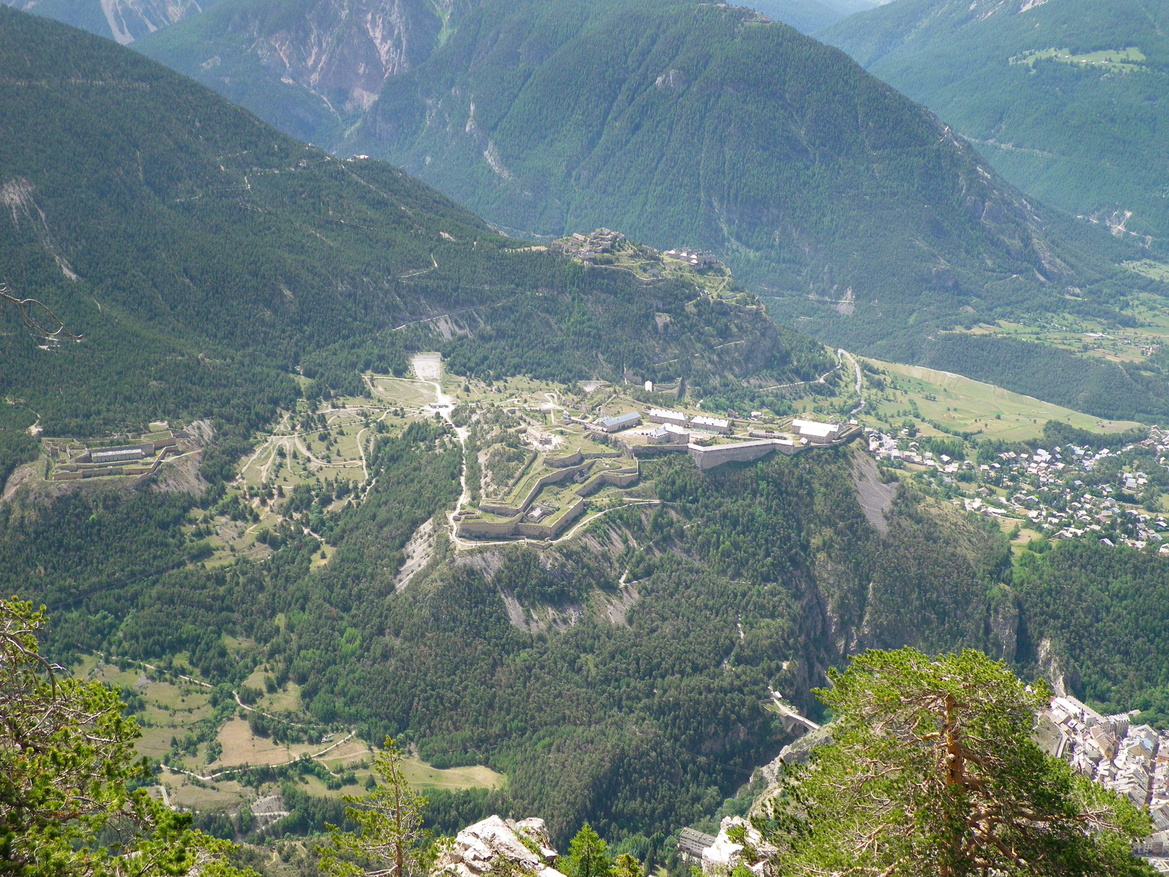 Fort des Têtes, Briançon, Hautes-Alpes, France